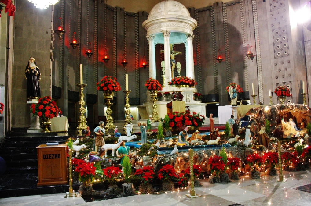 Saint Augustinus Church, Miguel Hidalgo, Federal District, Mexico